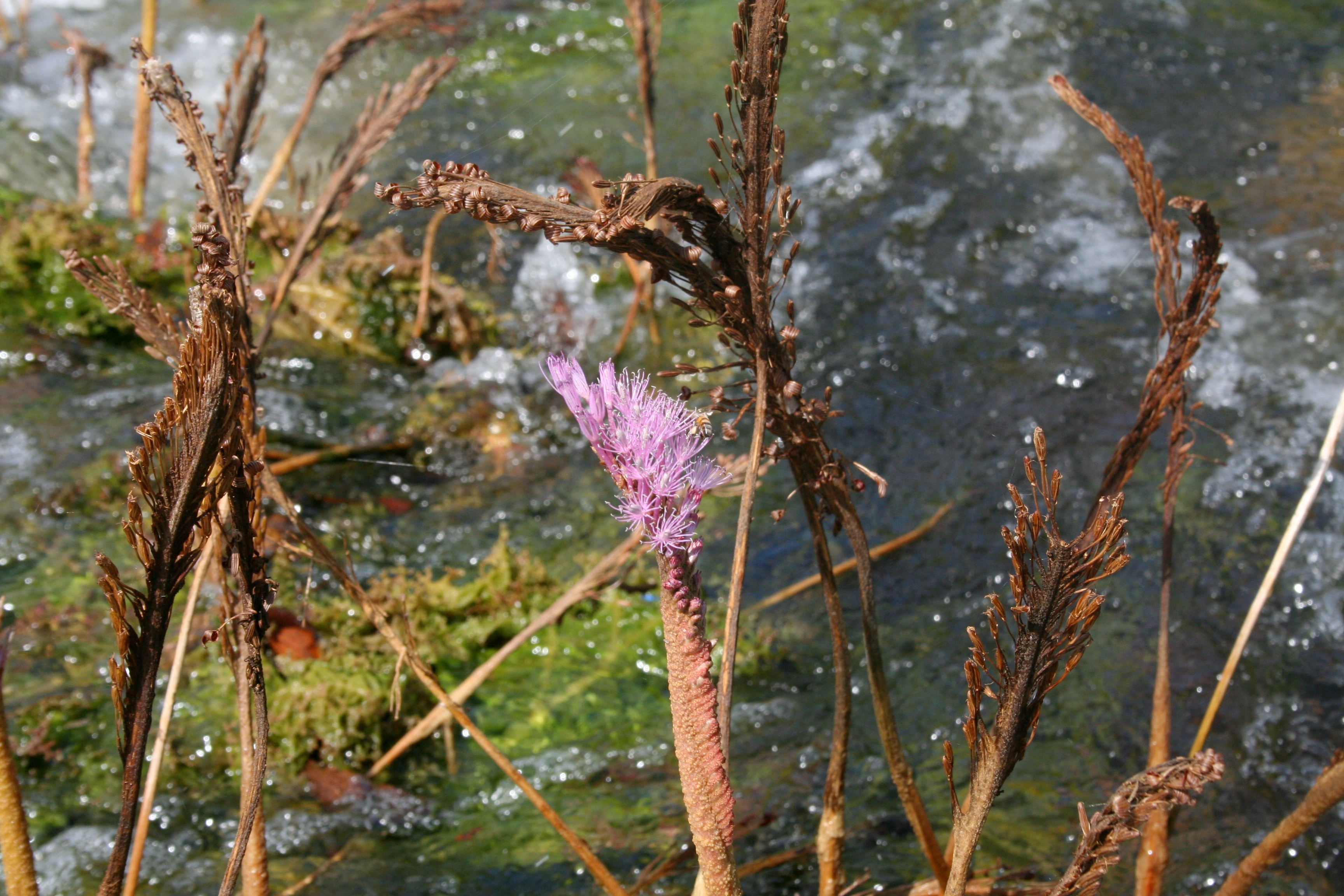 Flowers and fruits of Mourera fluviatilis (Podostemaceae family). Picture taken in the Llovizna Falls park, in Puerto Ordaz, Venezuela.